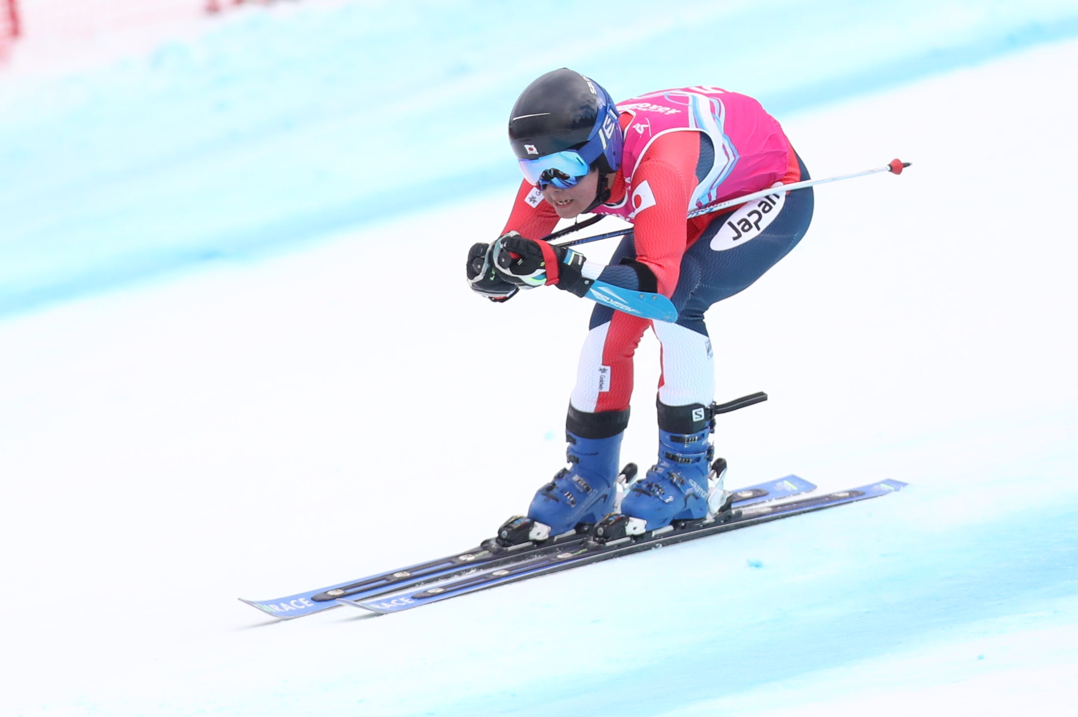 Men's Super G at the 2020 Winter Youth Olympics in Lausanne